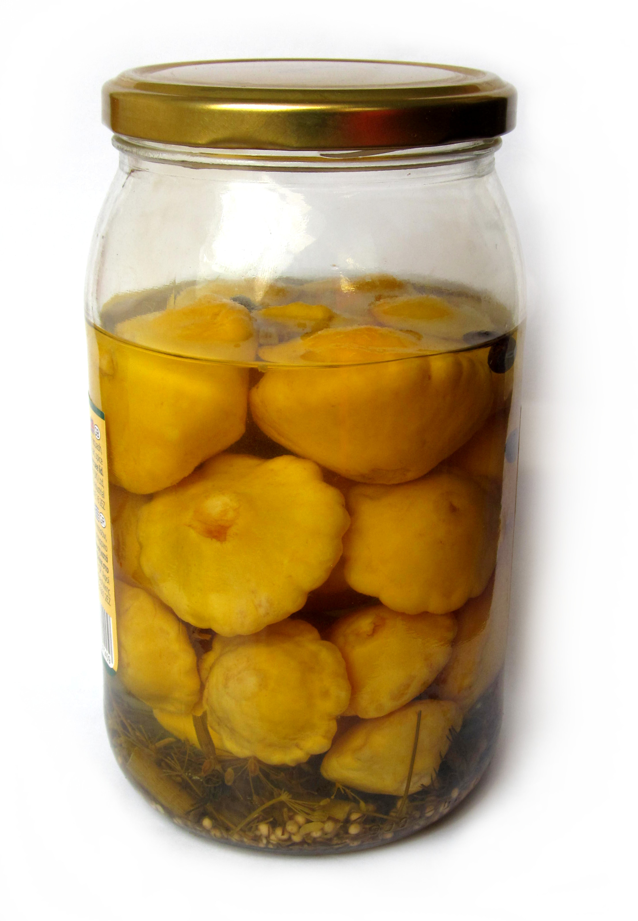 Pattypan squash in glass jar